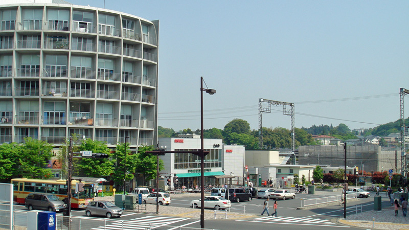 West Rotary of Tsurukawa Station, Odakyu Line